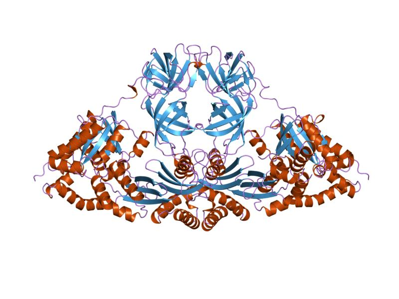 Cartoon representation of the molecular structure of protein registered with 1efu code.